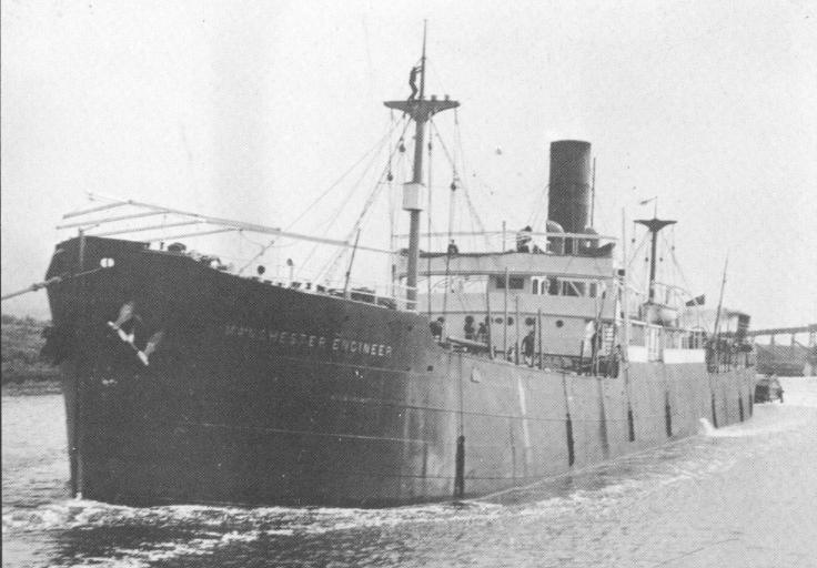 4,465 GRT cargo ship Manchester Engineer, built in 1905 as Craigvar for the West of Scotland Steam Ship Co. In 1910 the Treasury Steam Ship Co bought her and renamed her Nation. In 1917 Manchester Liners bought her and renamed her Manchester Engineer, replacing a previous ship of the same name sunk by a U-boat in 1916. In August 1917 the German submarine UC-16 torpedoed and sank the second Manchester Engineer southeast of Flamborough Head in Yorkshire. Actually launched: 25/02/1902. Completed: 04/1902. Builder: Northumberland Shipbuilding Co Ltd. Yard: Howdon. Yard Number: 95 [1]